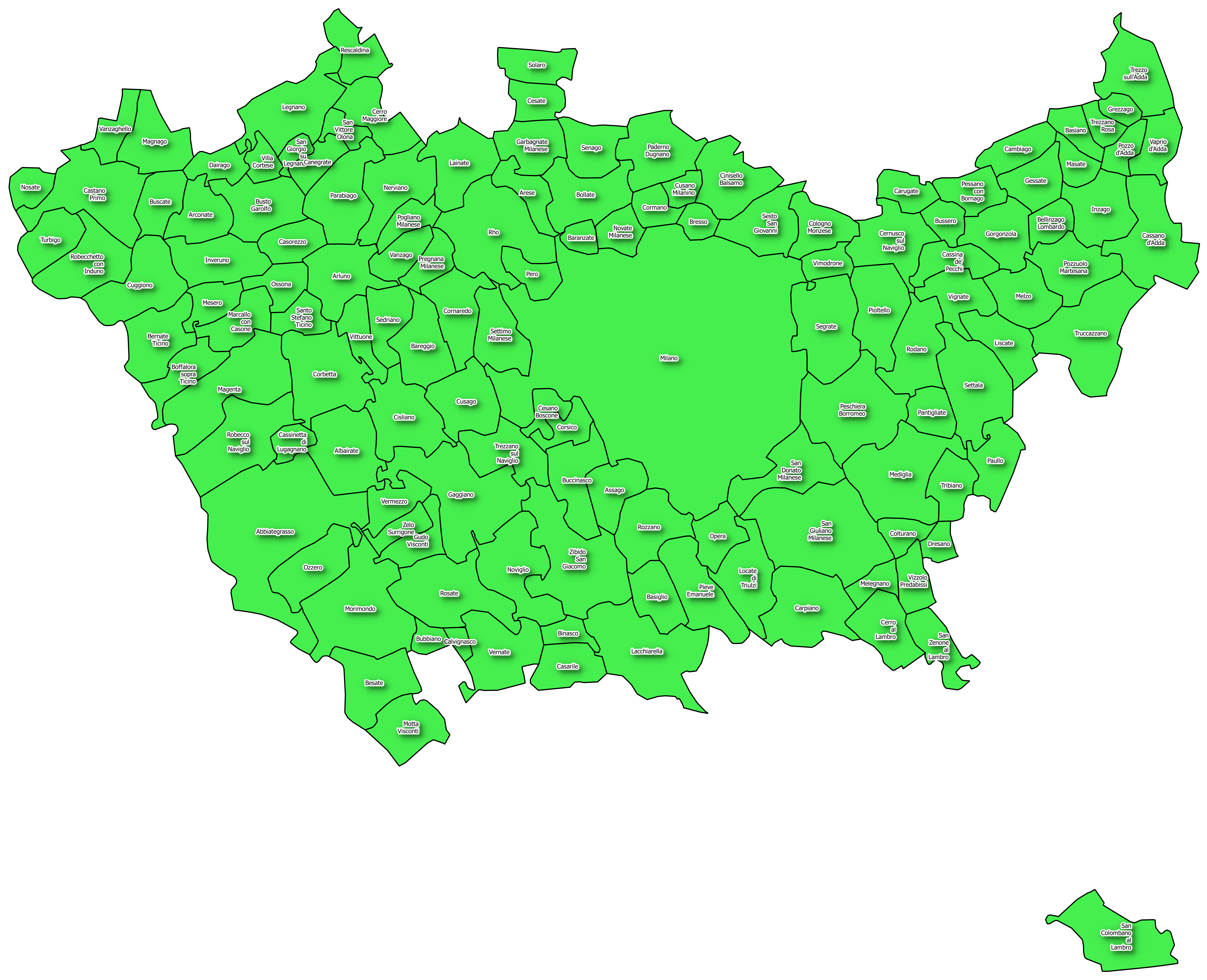 made with qgis